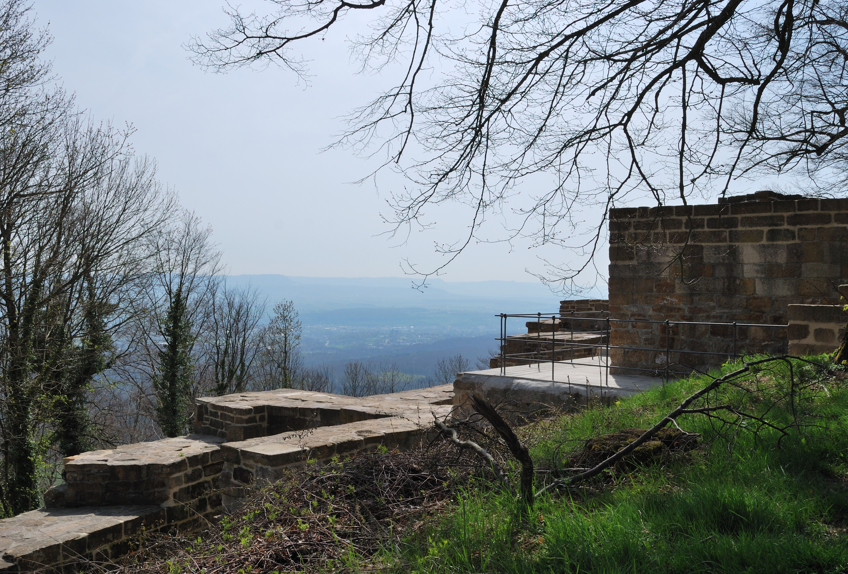 Ruins of the Hohenstaufen Castle near Göppingen in Southern Germany. View in southern direction.